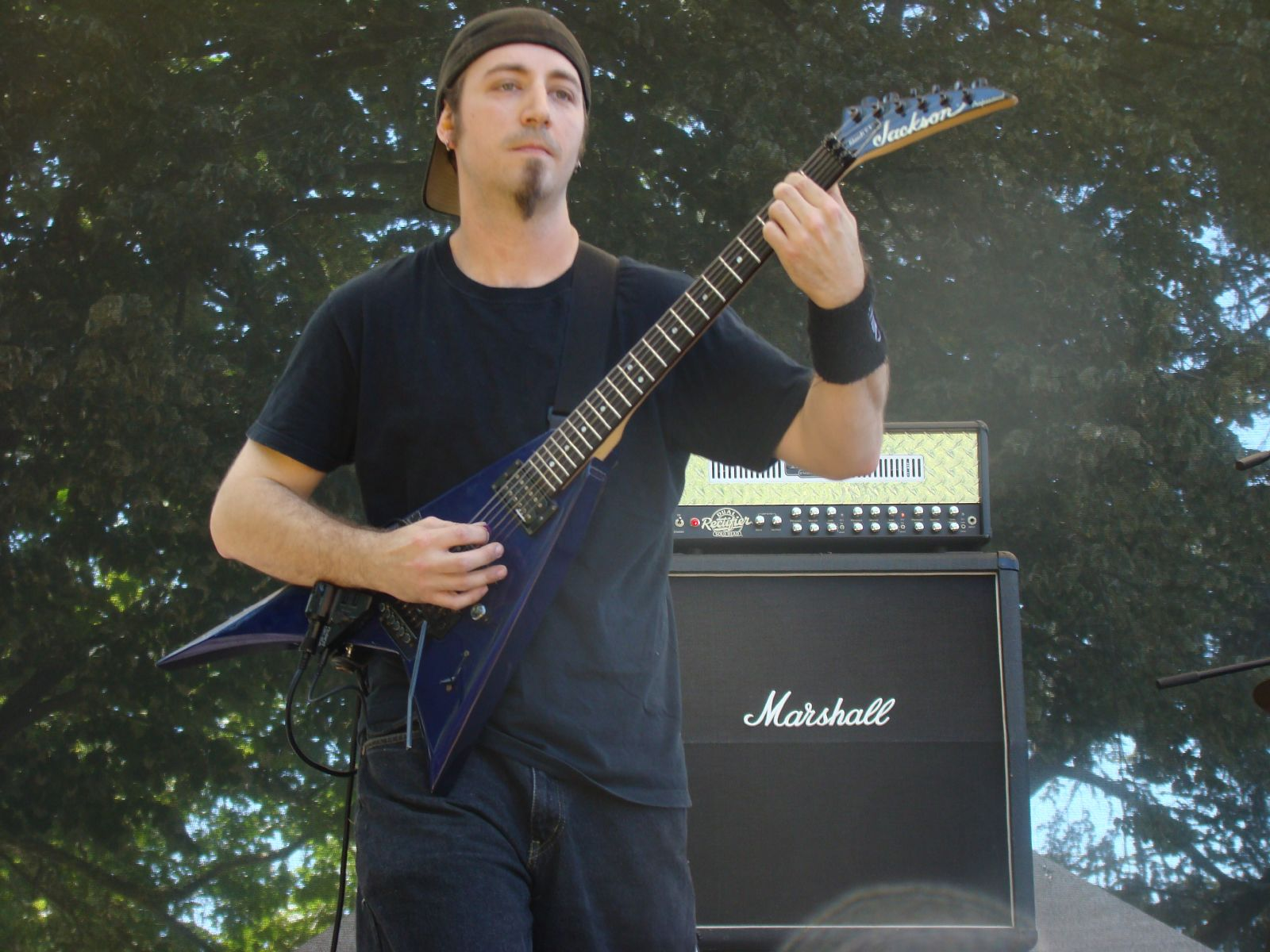 David Senescu of Cynic